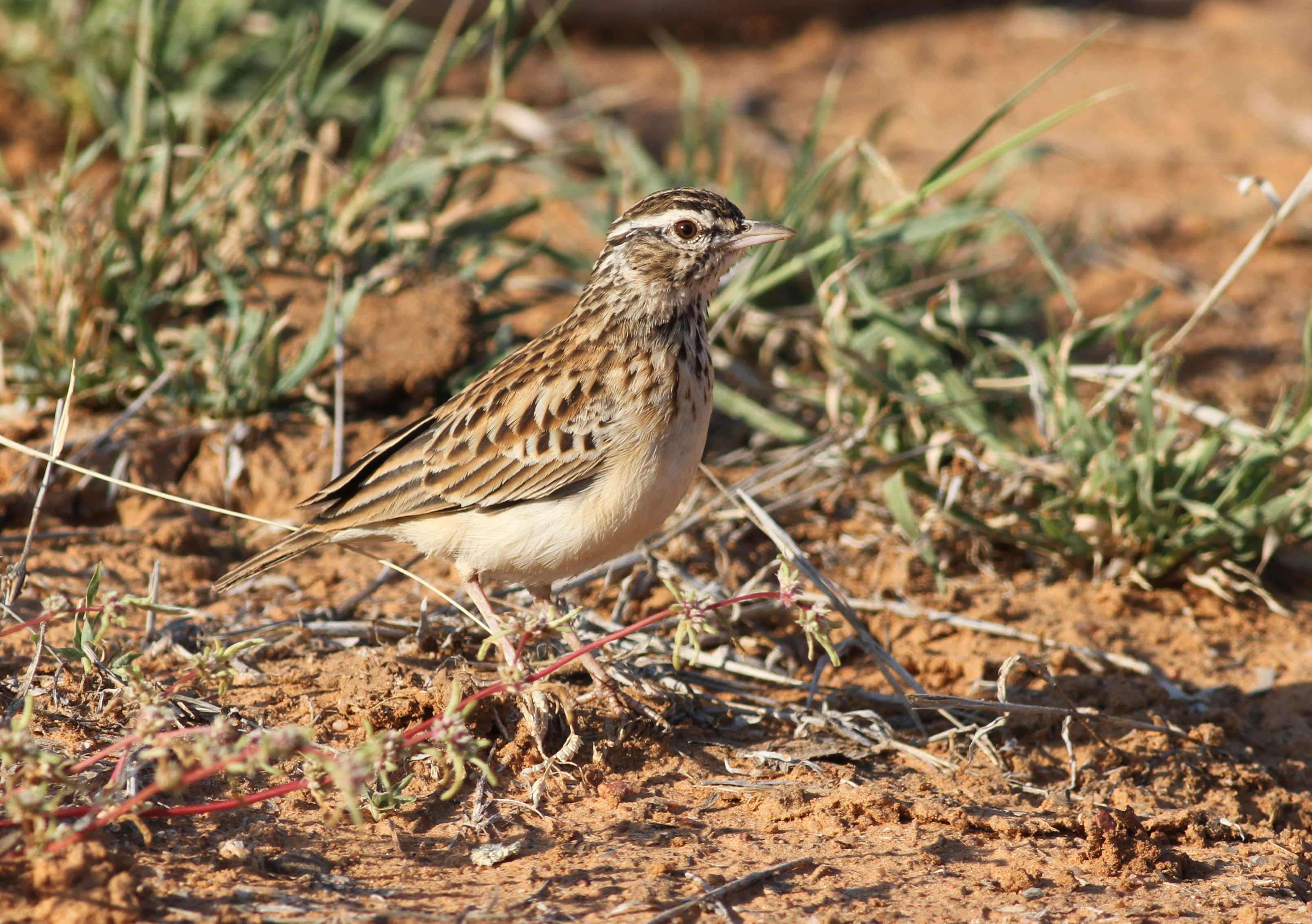 Sabota lark, Calendulauda sabota, at Mapungubwe National Park, Limpopo, South Africa